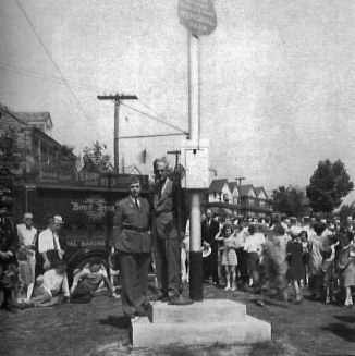 Smedley Butler at one of many speaking engegements in the 1930s. Received from the Marine Corps Archives. Freely distributable.